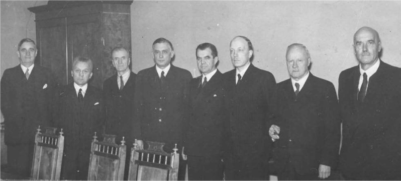 Finnish politicians sentenced to prison for alleged "war-responsibility" by the Soviet-controlled Control Commission after the Continuation war 1941-1944: Henrik Ramsay, Tyko Reinikka, Antti Kukkonen, Edwin Linkomies, J.W. Rangell, Risto Ryti, Väinö Tanner and T.M. Kivimäki.